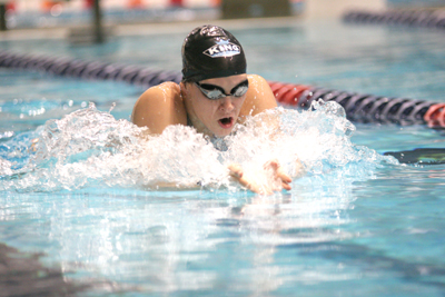 Megan Jendrick, photo by Nathan Jendrick; not to be duplicated without previous written consent of right holder